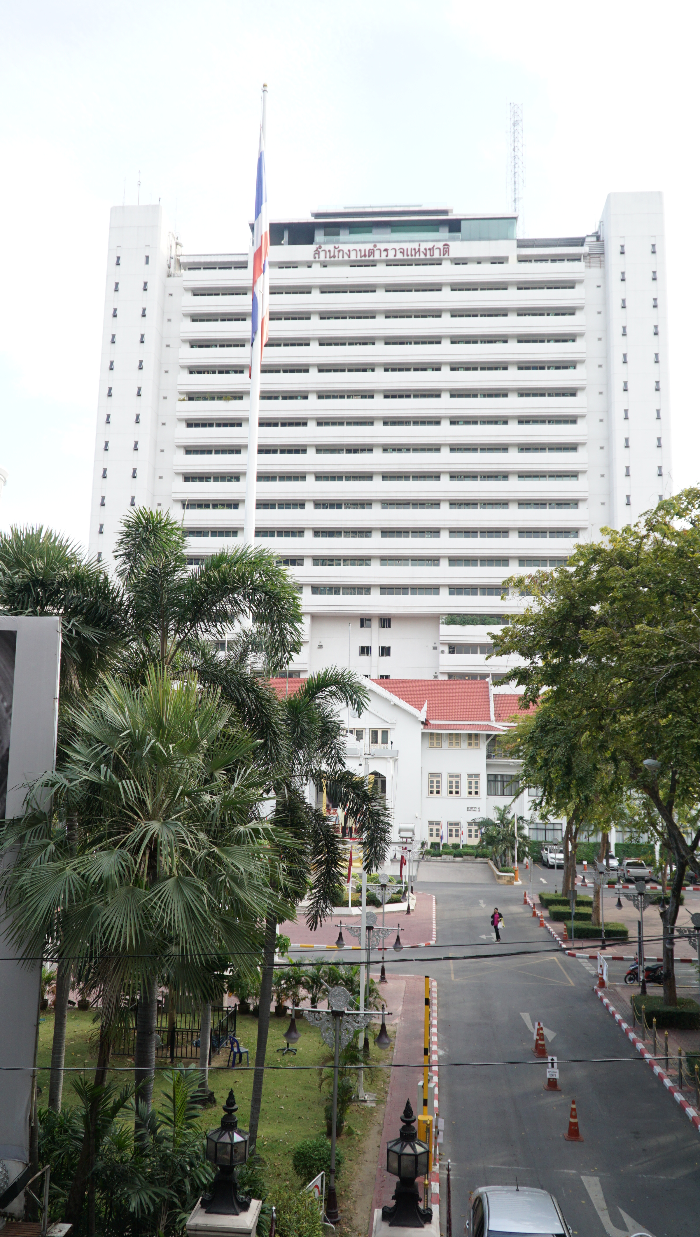 Royal Thai police headquarters in Pathum Wan District, Bangkok